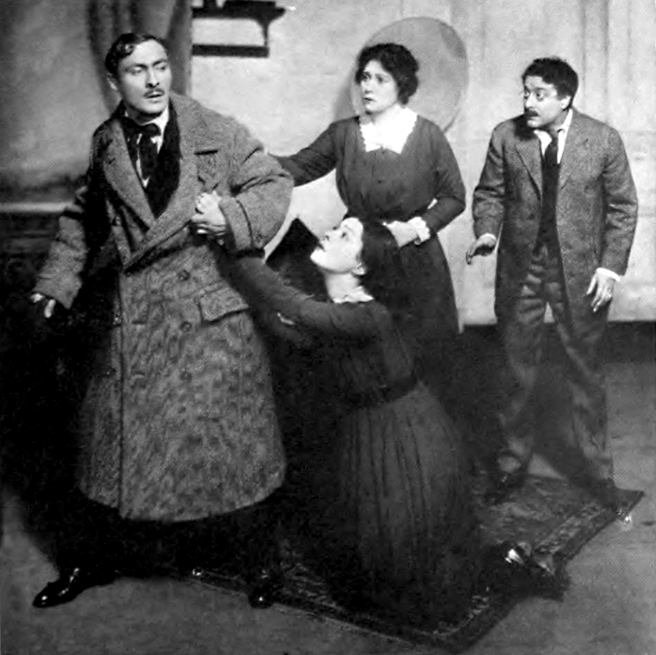 Photograph of Lionel Atwill (Hjalmar Ekdal), Alla Nazimova (Hedvig), Amy Veness (Gina Ekdal) and Harry Mestayer (Gregers Werle) in the original Broadway production of The Wild Duck Caption reads as follows:Act II. Hedvig—"No, no, father! Don't leave me!"